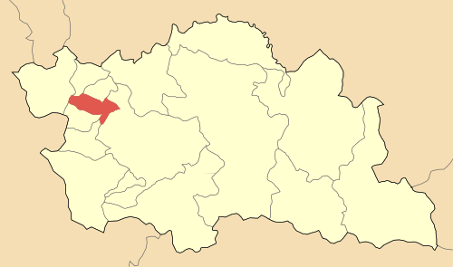 Locator map of Filippeon community (Κοινότητα Φιλιππέων) at Grevena perfecture, Greece.